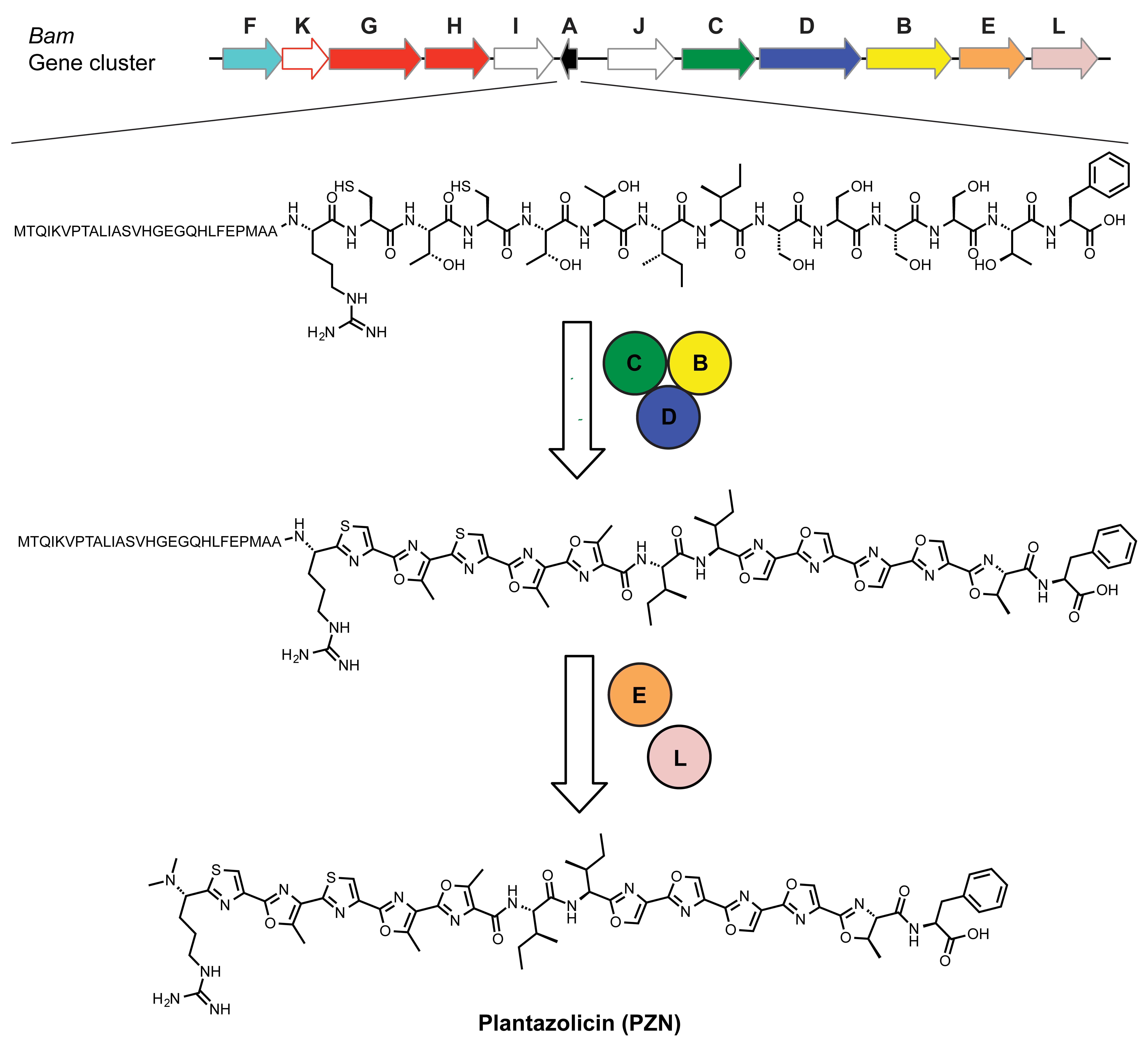 Plantazolicin (PZN) is a ribosomally produced peptide that undergoes post-translational modification by a cyclodehydratase (C and D proteins, shown in circles), dehydrogenase (B protein), methyl transferase (L protein), and putative peptidase (E protein), resulting in the highly modified natural product structure.